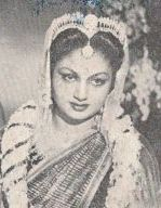 M. G. Ramachandran (1917 – 1987), Tamil actor, politician and V. N. Janaki (1923 - 1996), an actress and politician (in 1948 Tamil film Mohini)